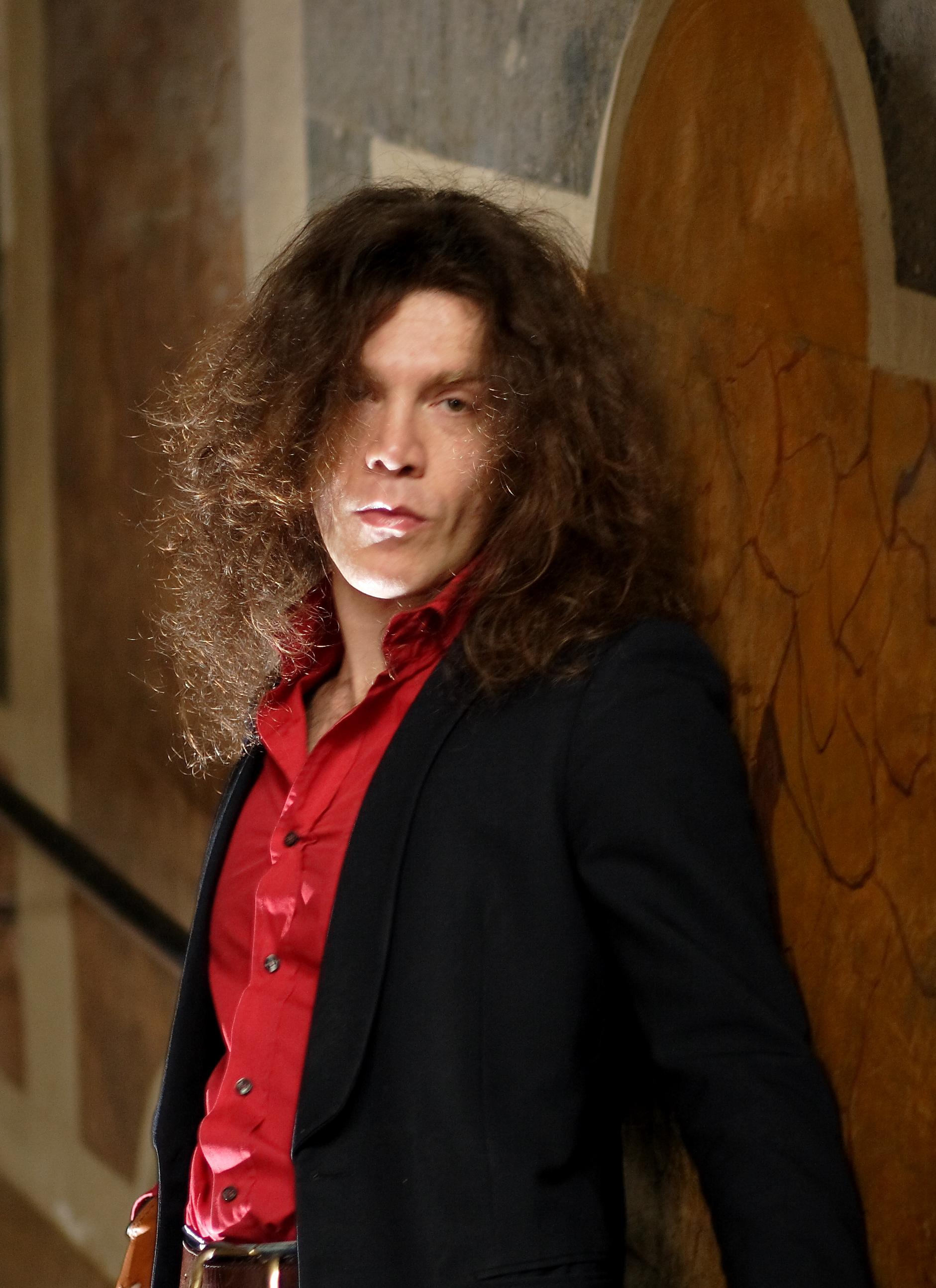 Vatican composer Michael Igor D'Alessandra